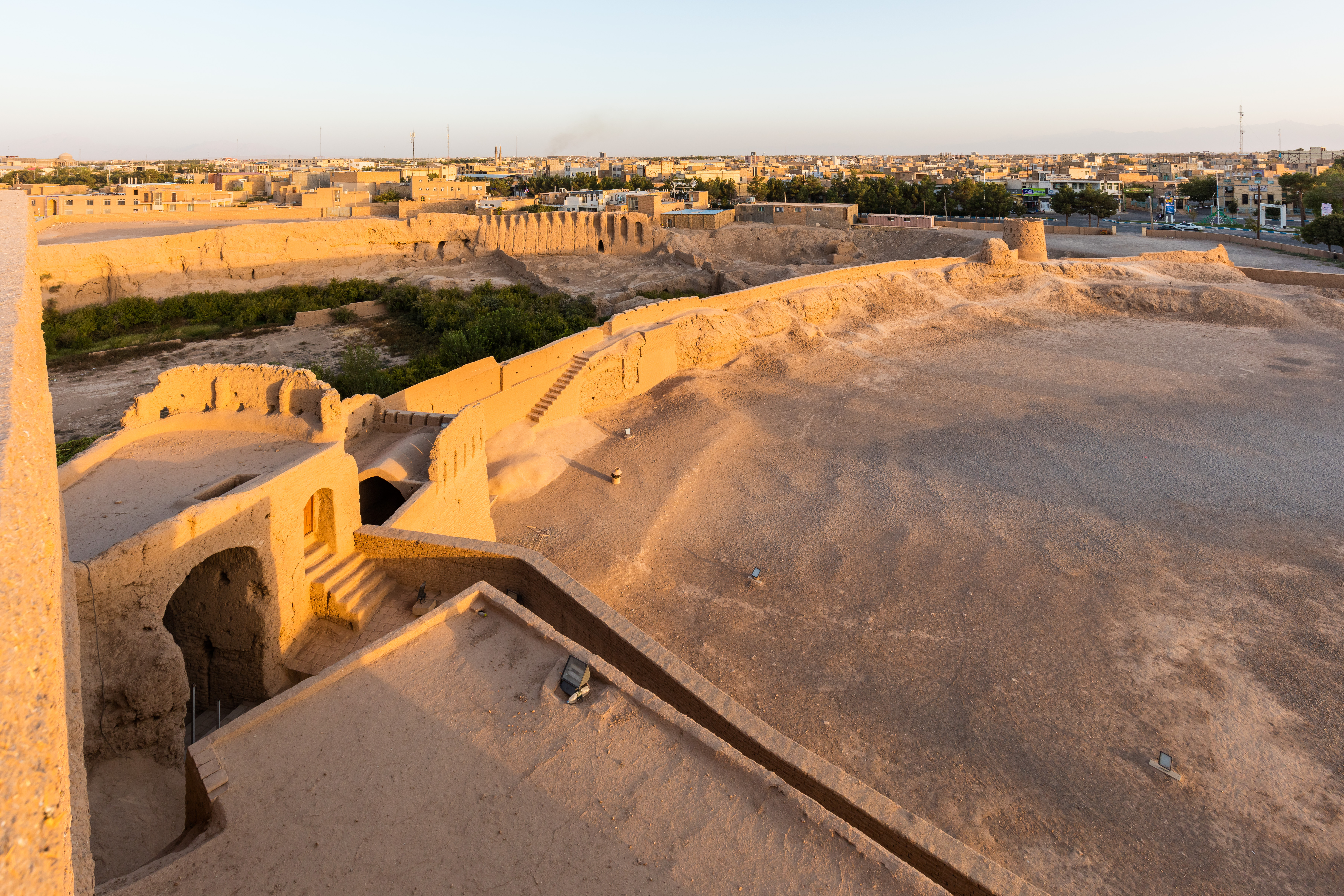 Citadelle of Meybod, Iran